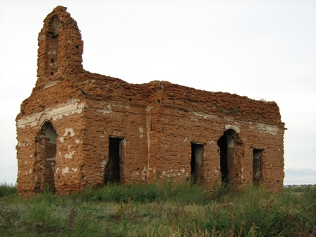 Ruins of the Church of the Dormition of the Theotokos in Baraba, Kurgan Oblast, Russia.